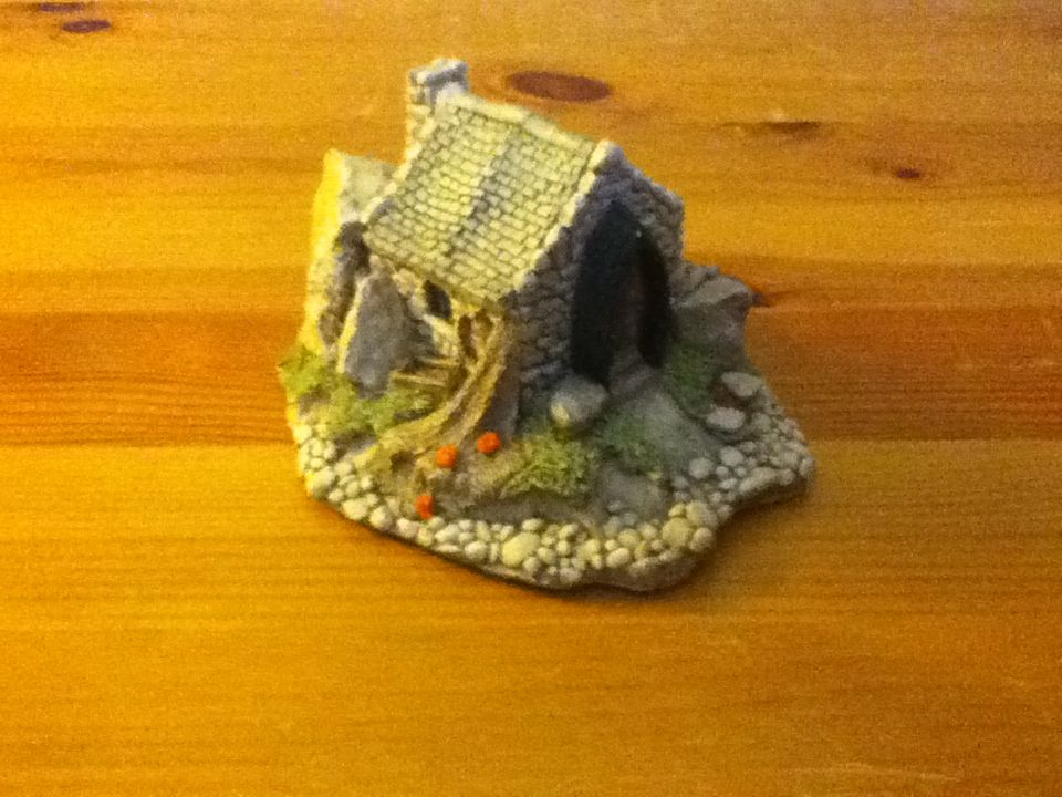 An example of a Lilliput Lane model. This specific model is "Fisherman's Bothy".